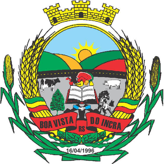 Coat of arms of the city of Boa Vista do Incra, Rio Grande do Sul, Brazil.